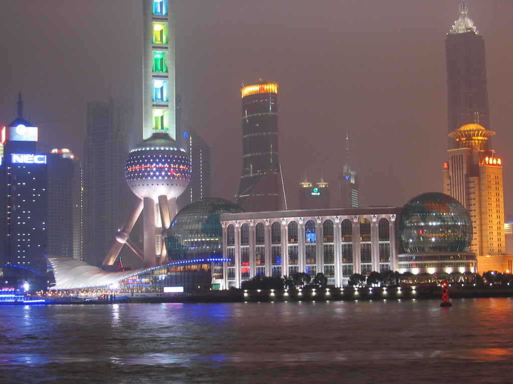 上海国际会议中心夜景 Shanghai International Convention Center (SHICC) at night